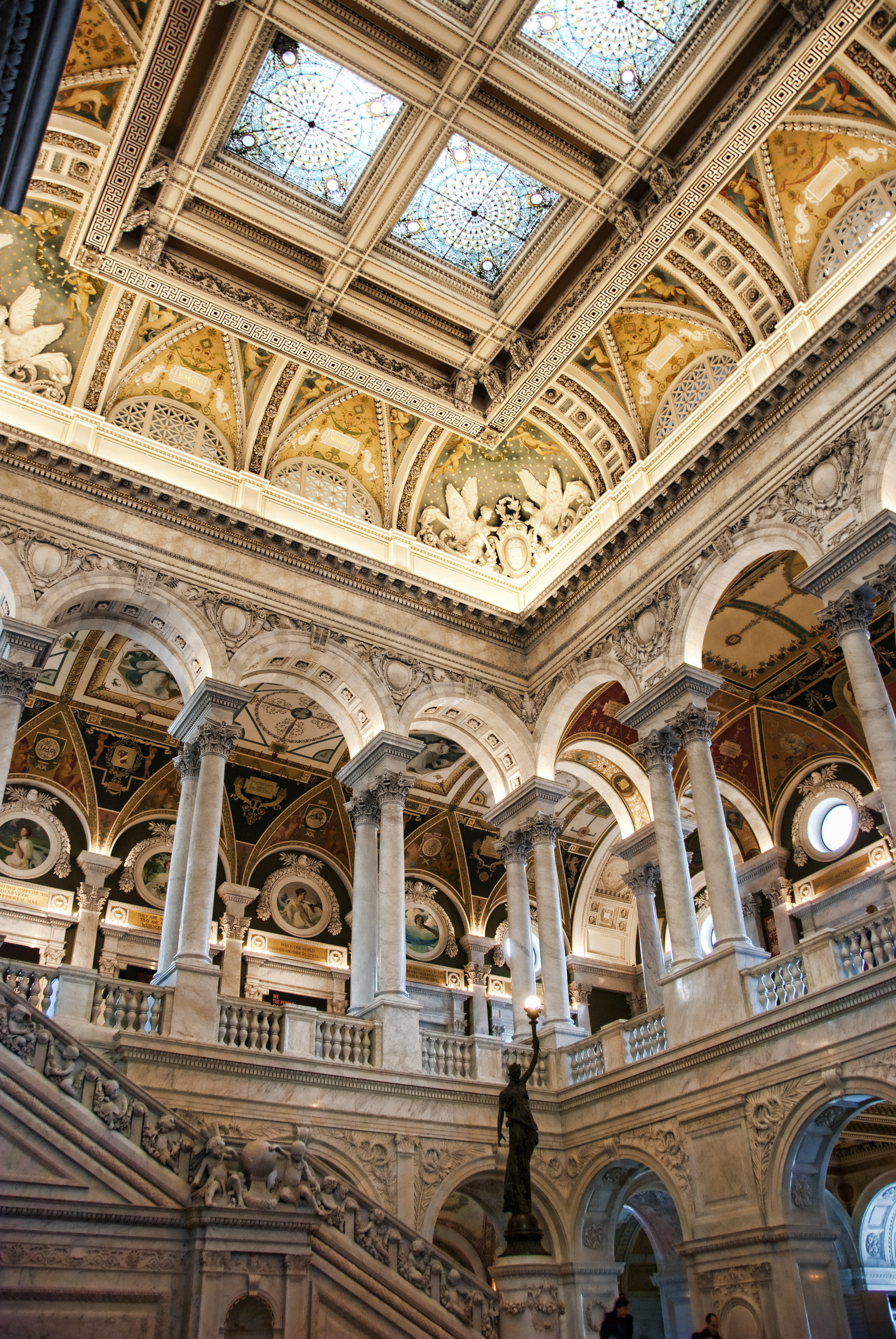 View of the Great Hall in the Library of Congress, Washington D.C.